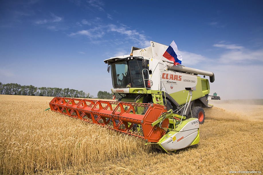 stripper header